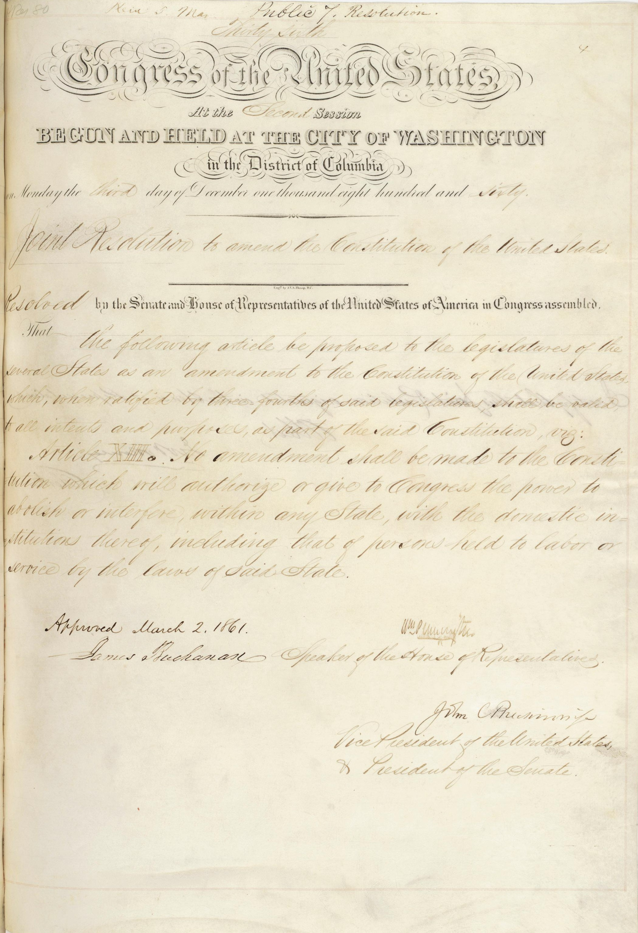 Image of the resolution proposing the so called "Corwin Amendment" passed by the US Congress on 2 March 1861, which would have barred any federal interference with slavery in states that permitted it.